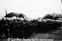 The so called "Grey Division" of the Ukrainian army